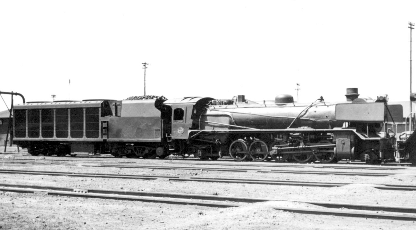 SAR Class 20 no. 2485 (2-10-2), modified to an experimental condensing locomotive